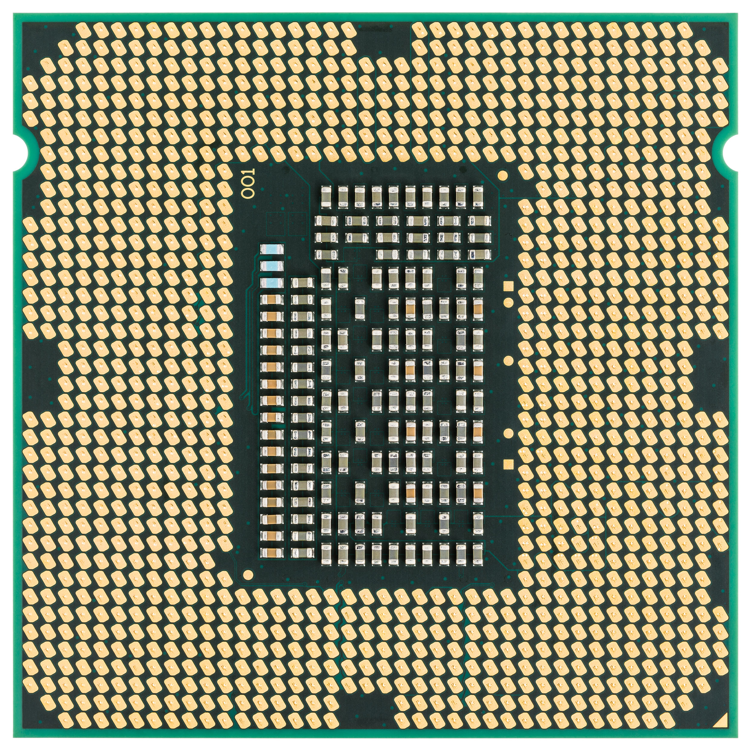 Bottom view of an Intel central processing unit Core i7 Sandy Bridge type core, model 2600K. LGA 1155 socket, 32 nm process, core frequency 3.40 GHz.